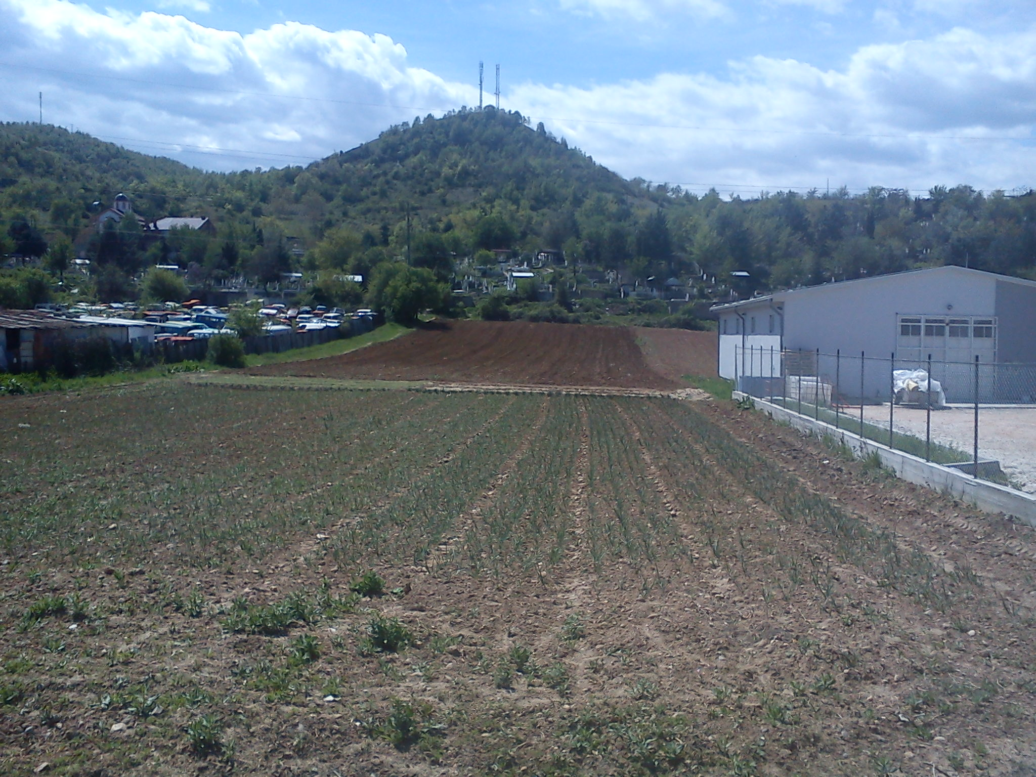 Scallions (onion) field in Drachevo, Macedonia